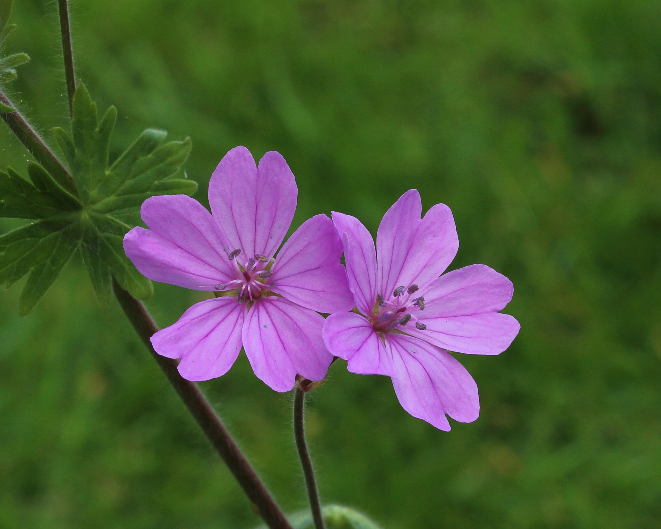 Geranium Brutium. An uncomplicated cheerful annual geranium.